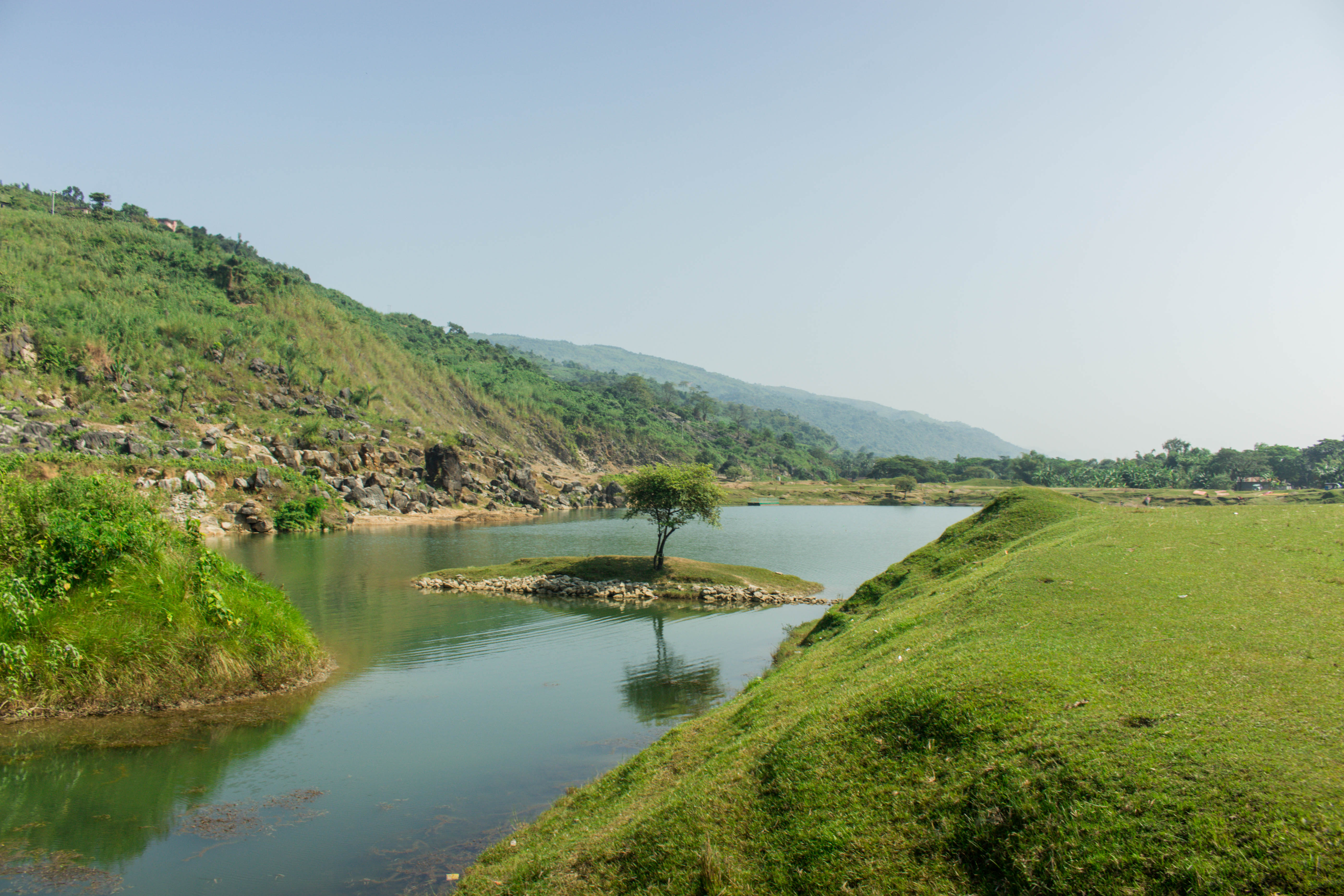 Niladri Lake